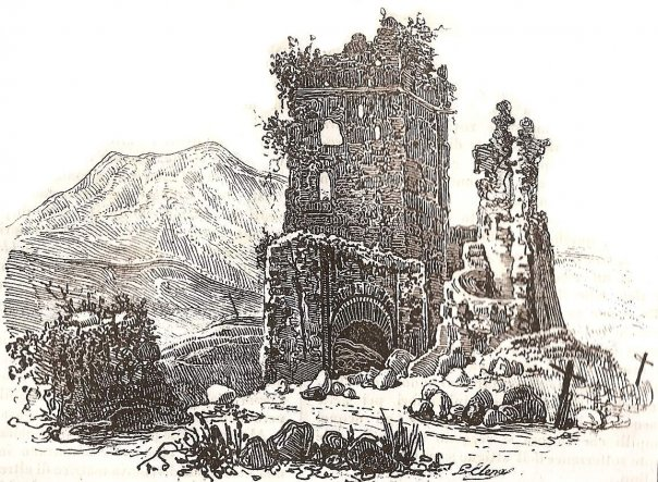 North Face of Castle